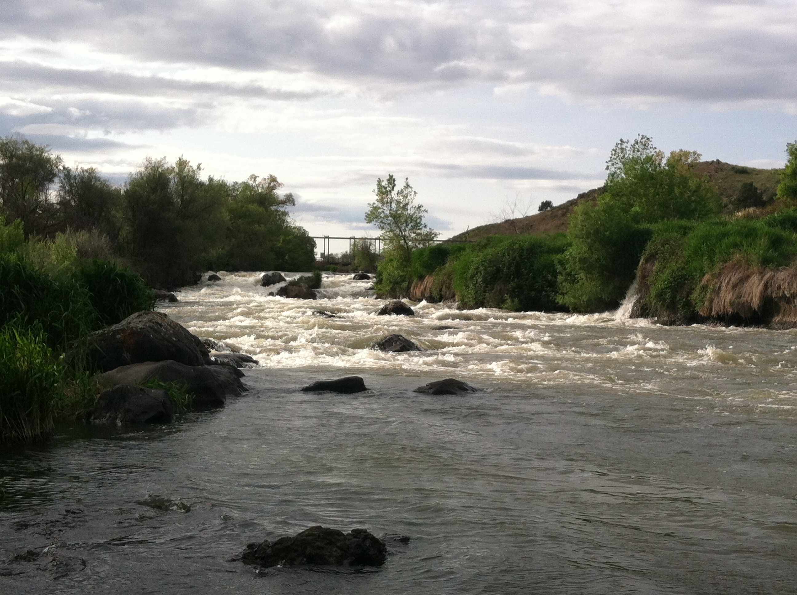 White waters flowing downstream of Link River, Klamath Falls, OR. It was this Link River white water phenomenon from which "falls" was added to Klamath in its name. In reality it's best described as rapids rather than falls and are visible a short distance below the Link River Dam, where the water flow is generally insufficient to provide water flow over the river rocks.